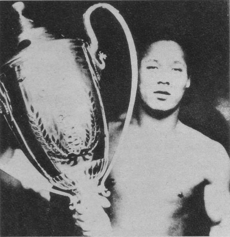 Musashiyama Takeshi (taken in 1931).